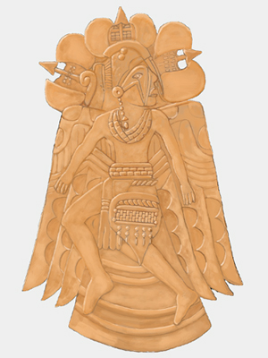 An illustration of Etowah plate 3 (Moorehead plate 1) discovered in Mound C at the Etowah Indian Mounds in Georgia, USA by Warren K. Moorehead. Reconstruction based on a fragmentary Mississippian copper plate, with missing parts extrapolated from similar plates also found at the site.